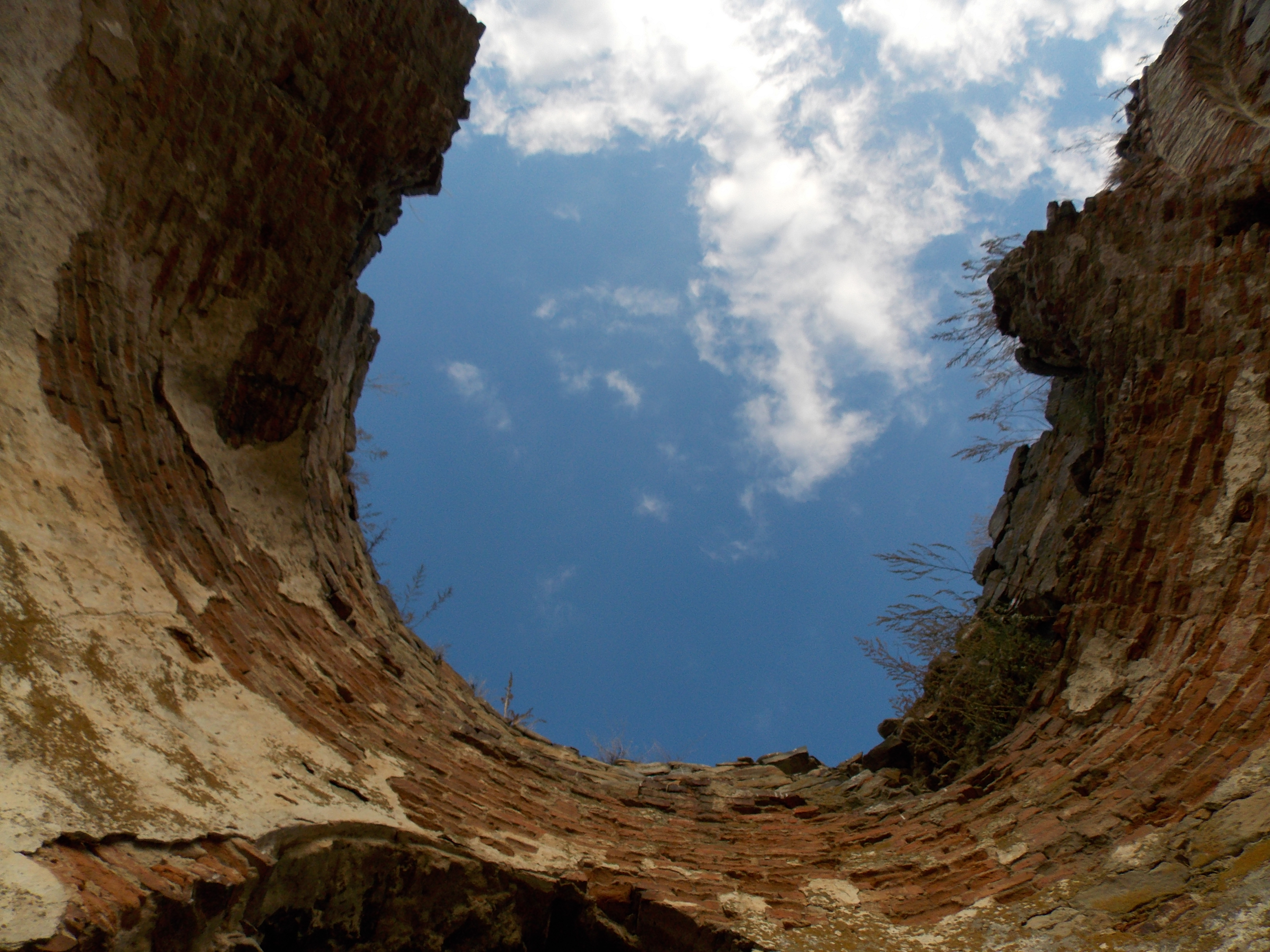 The ruins of the Bociuleşti Monastery (1629); Podoleni village, Neamț County, Romania)